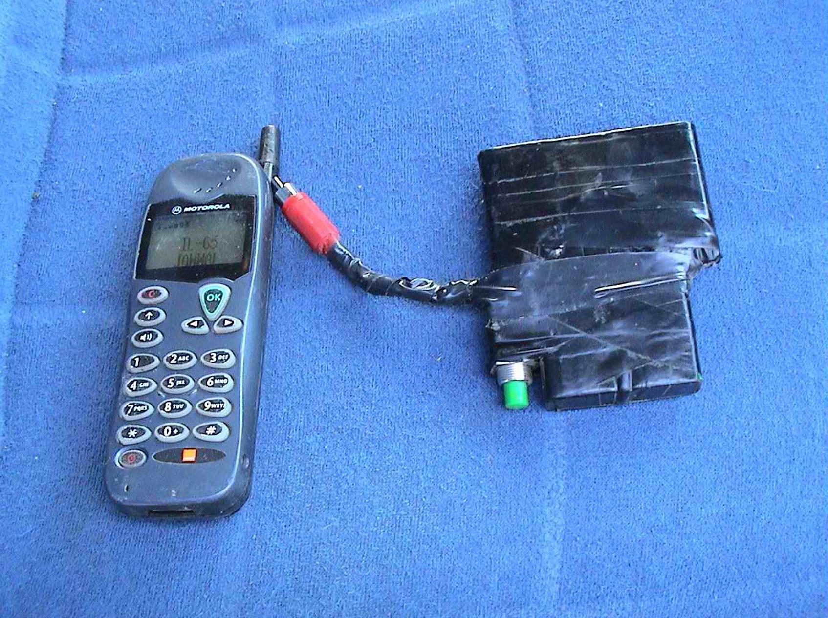 12/16/2002 IDF forces identified two armed terrorists nearing the security fence in the northern Gaza Strip. The soldiers opened fire towards the suspects, after they would not step away from the fence. Upon searching the bodies soldiers found grenades, AK-47 assault rifles, loaded cartridges, and night vision goggles. In addition, a 3 kg shrapnel bomb was found at the scene.